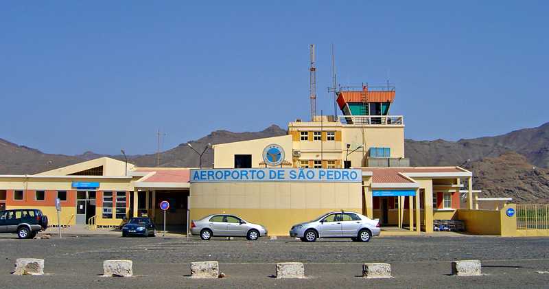 Airport of São Pedro (VXE), São Vicente Island, Cape Verde